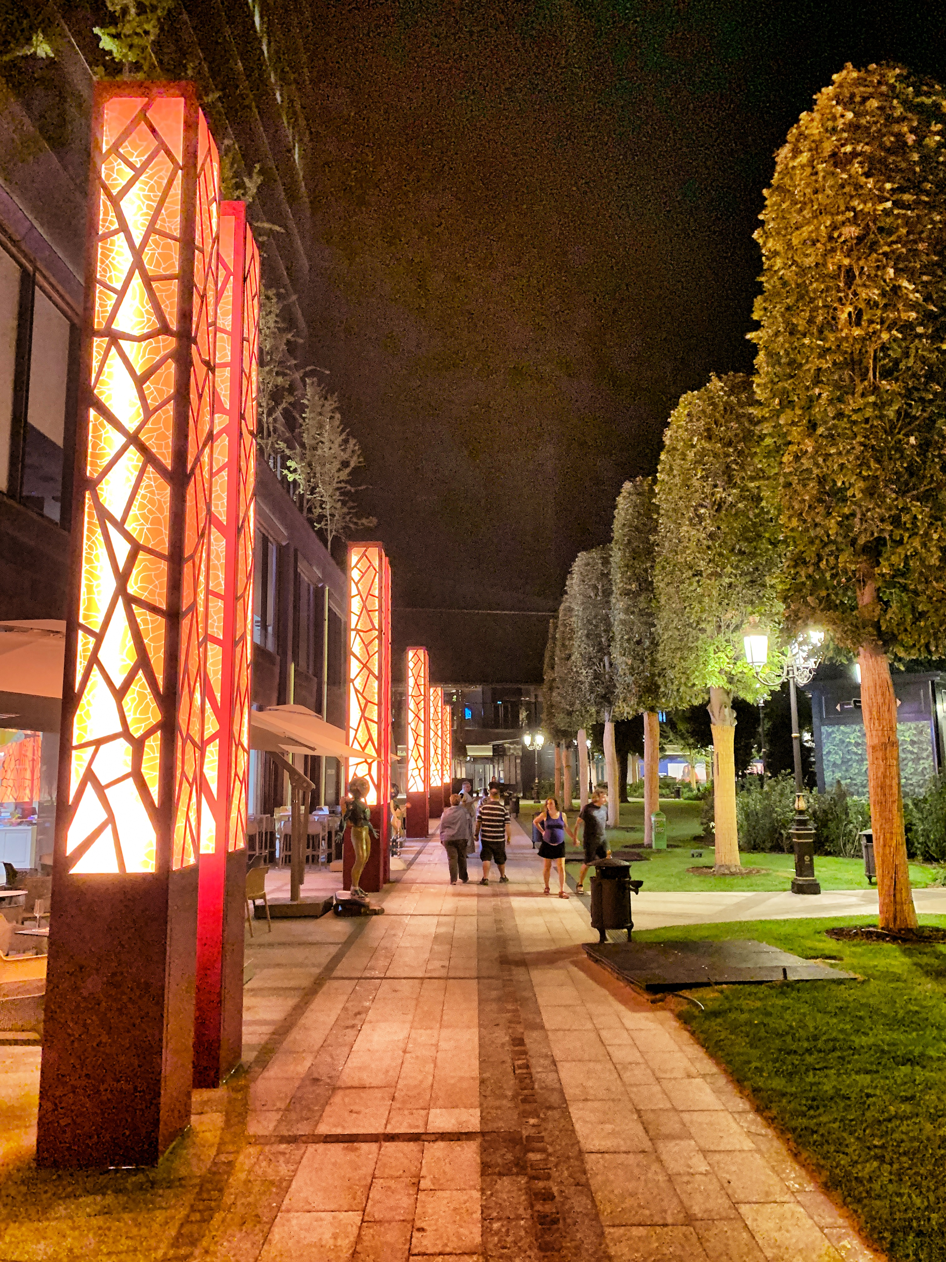 Iulius Town Timișoara at night, September 2019